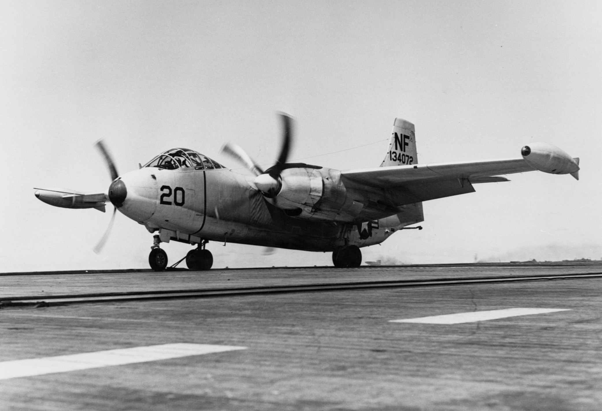 A U.S. Navy North American AJ-2 Savage (BuNo 134072) of Heavy Attack Squadron VAH-6 Fleurs on the catapult of the aircraft carrier USS Lexington (CVA-16) in the waters of southern California. VAH-6 was assigned to Air Task Group 1 (ATG-1) aboard the Lexington for a deployment to the Western Pacific from 28 May to 20 December 1956.